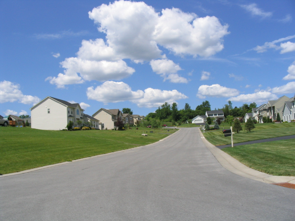 photo of a neighborhood called Boulder Heights in DeWitt, NY, taken by me on June 20, 2004